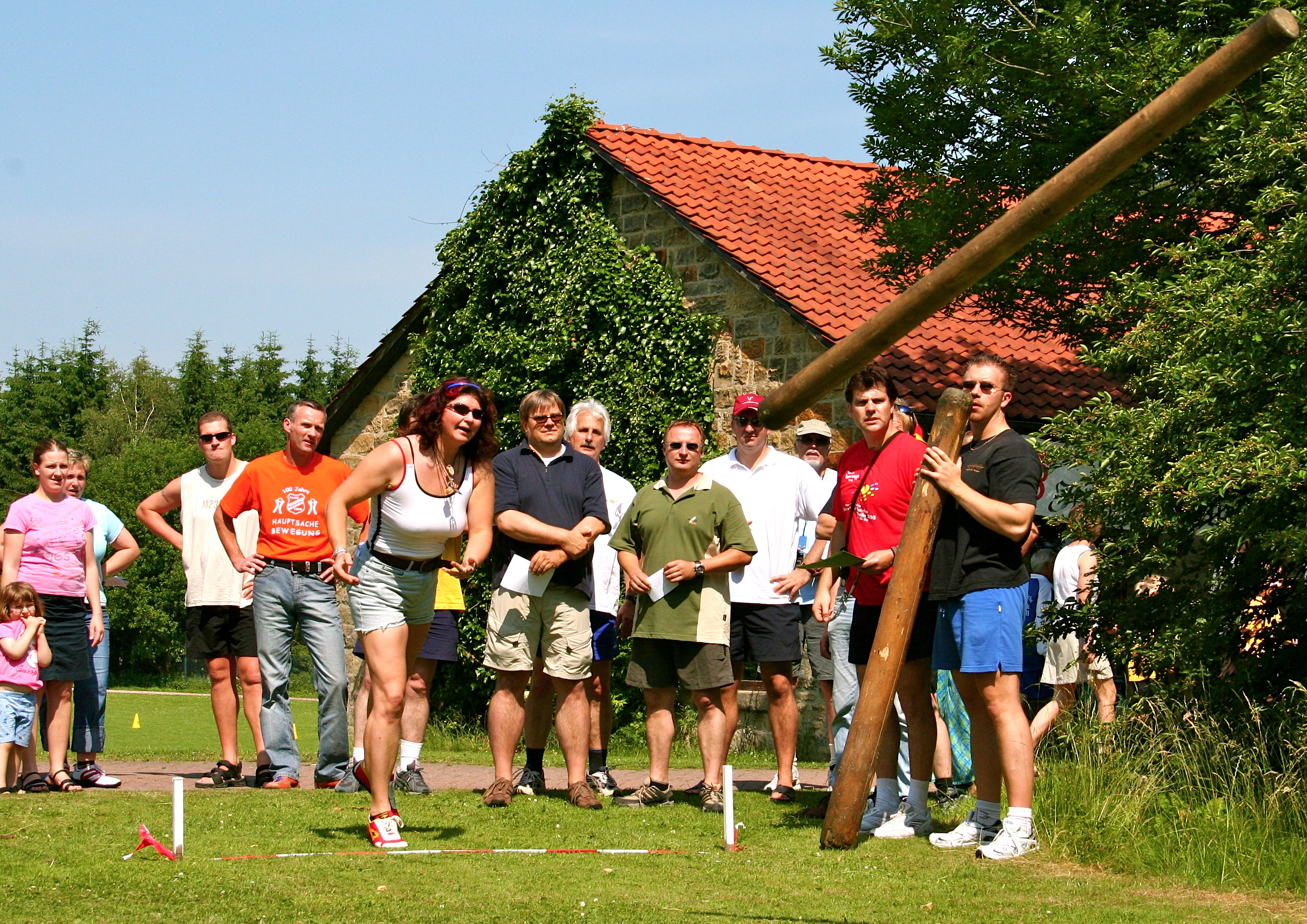 Tossing the caber at Jahn Bergturnfest 2006 at Bückeberg, Lower Saxony, Germany